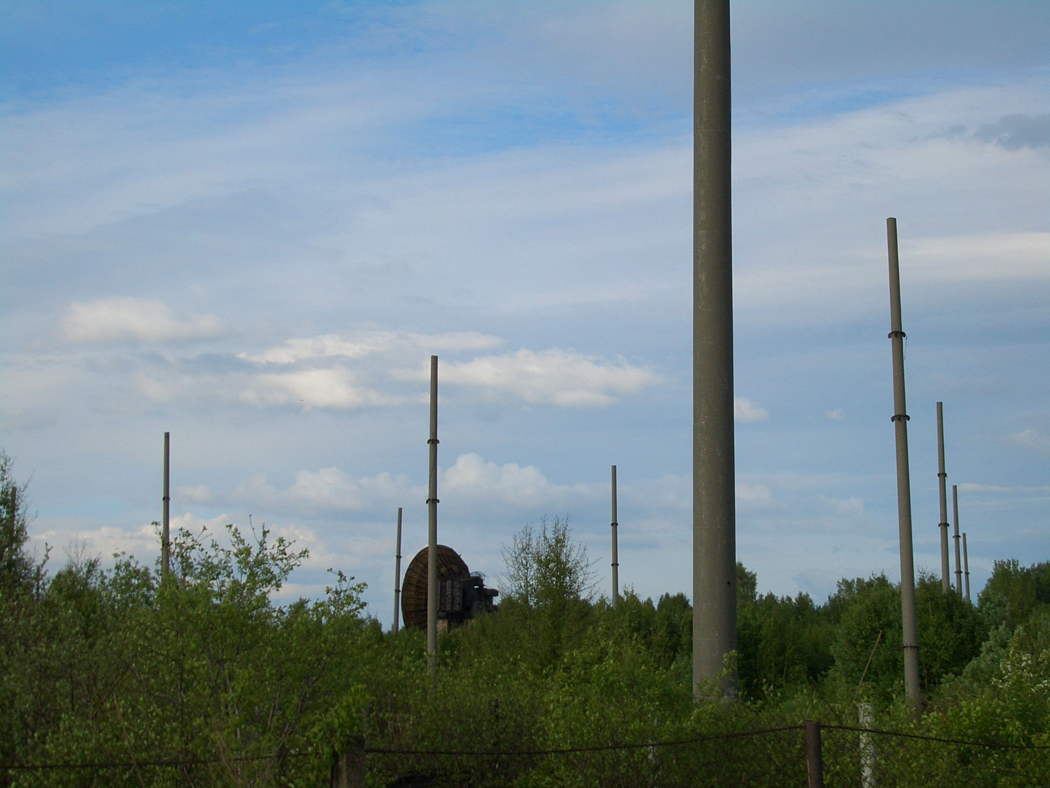 Radiotelescope РТ-15-1 of Zimenki Radio Astronomy Station NIRFI. At present unmounted (apparently sold as scrap metal). Village Zimenki, Kstovo District, Nizhny Novgorod Oblast, Russia.